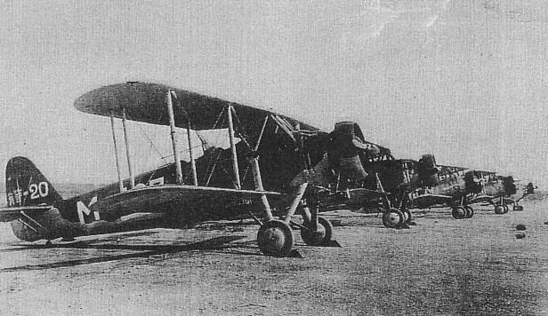 Manchukuo Coast Guard Aircraft Aichi D1A